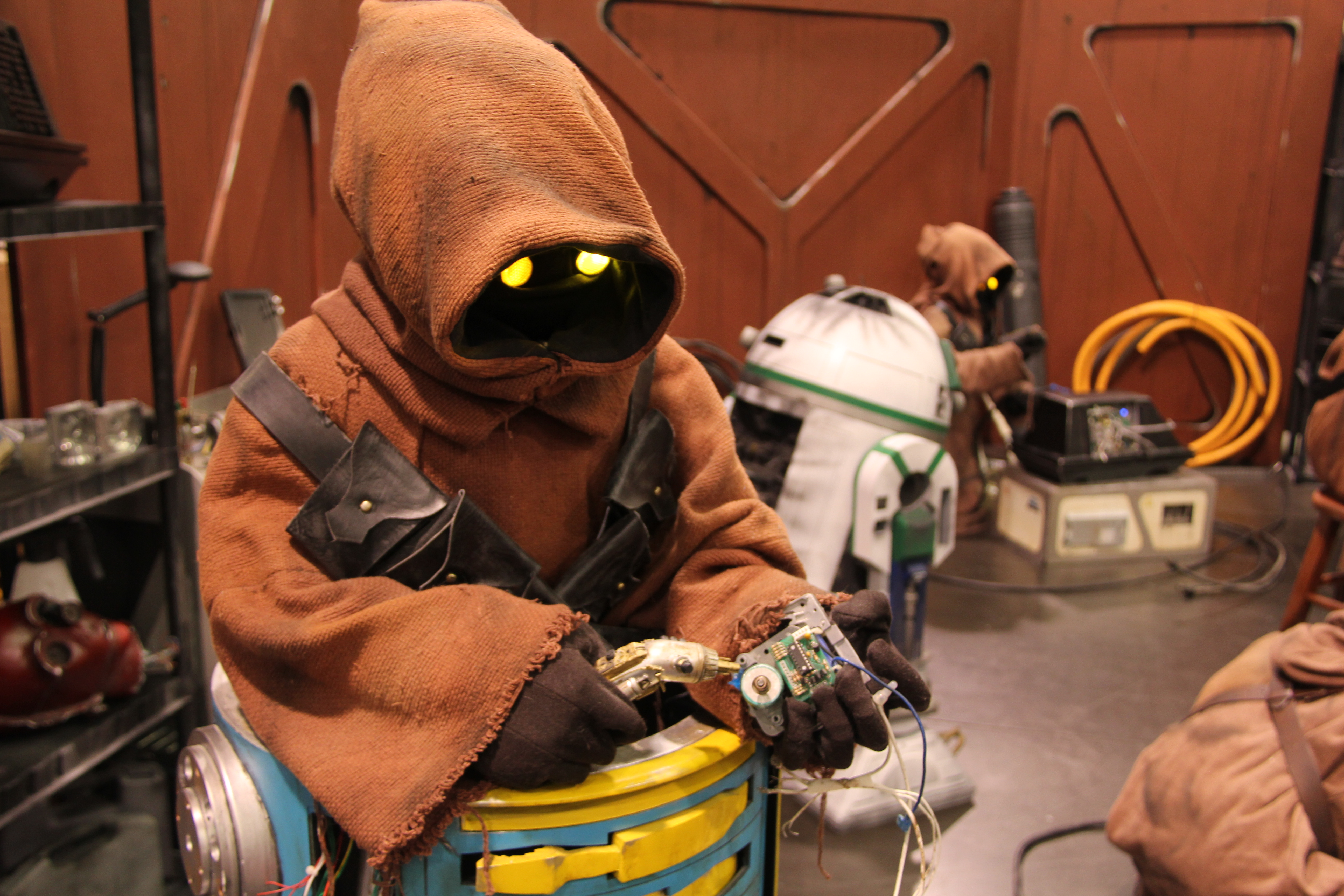 Jawas hard at work Star Wars Celebration in Anaheim, April 2015.